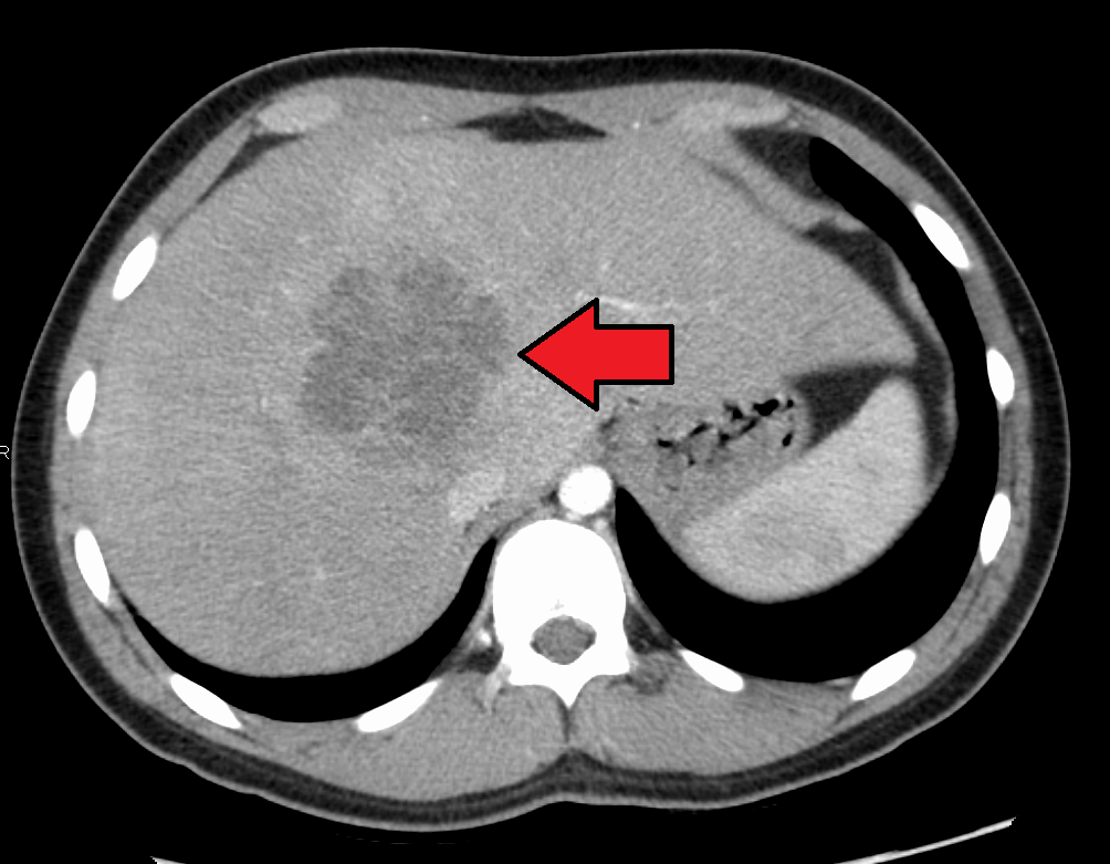 Liver abscess